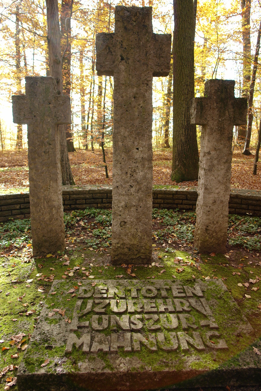 War memorial by Ugge Bärtle on the Bergfriedhof cemetry of Tübingen, Germany